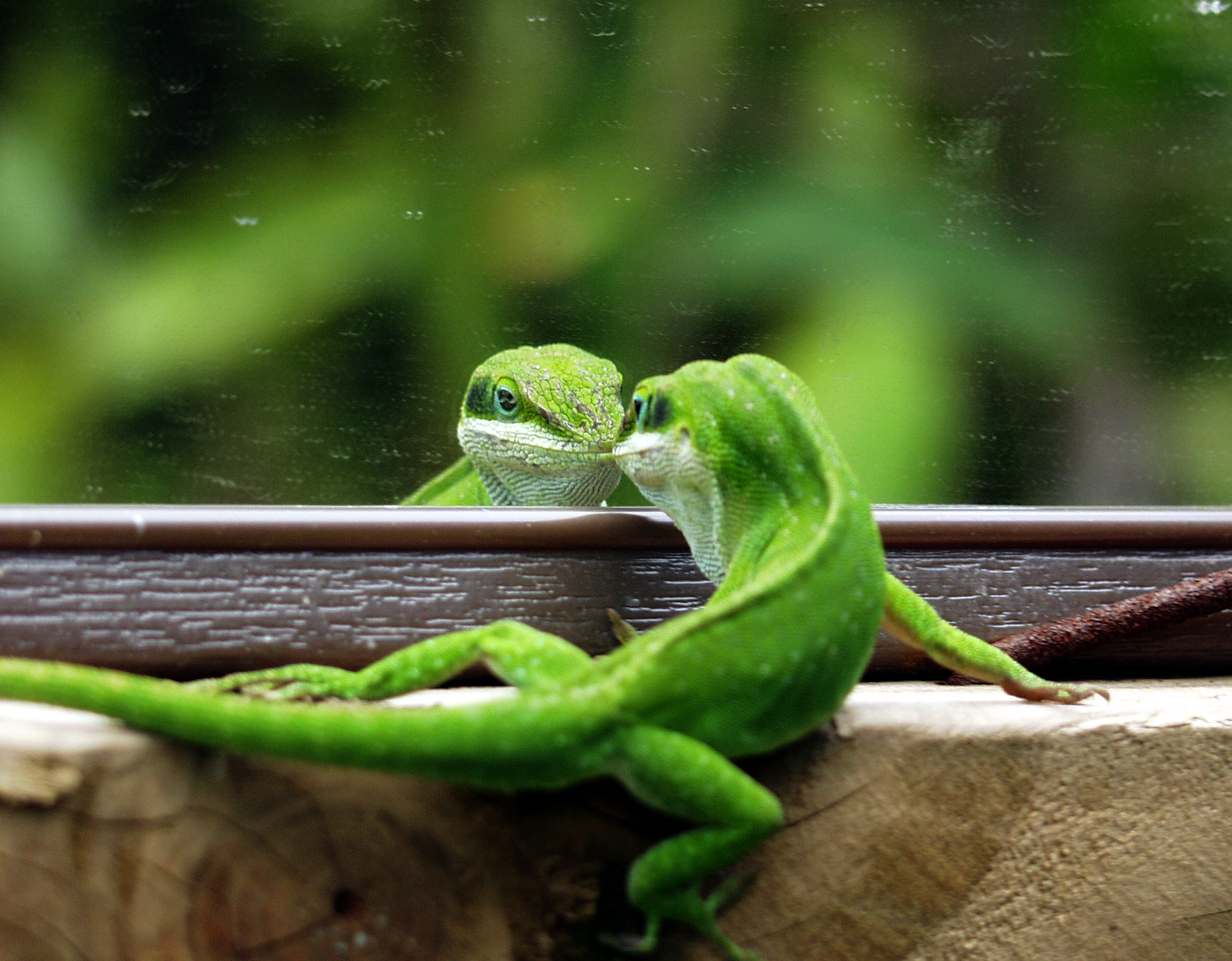 green anole trying to intimidate its reflection